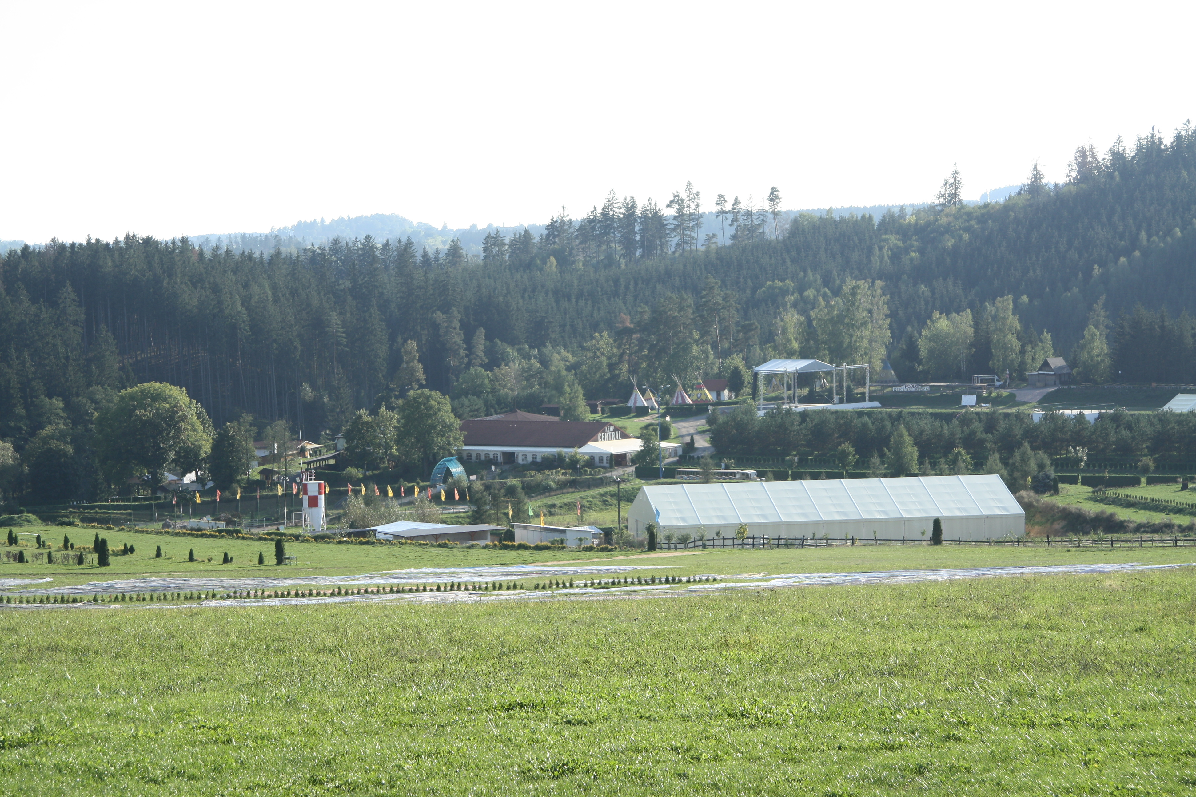 Overview of Šikland in Zvole, Žďár nad Sázavou District.